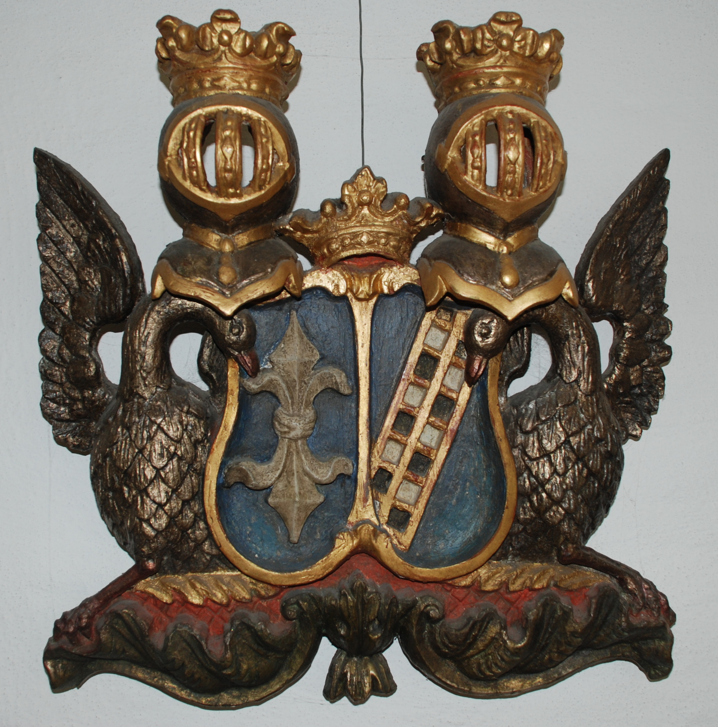 Coat of arms Beck-Friis in Bergunda Church